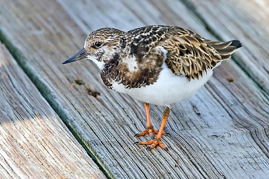 Ruddy Turnstone, Pier, Rockport Beach Park, Rockport, Texas